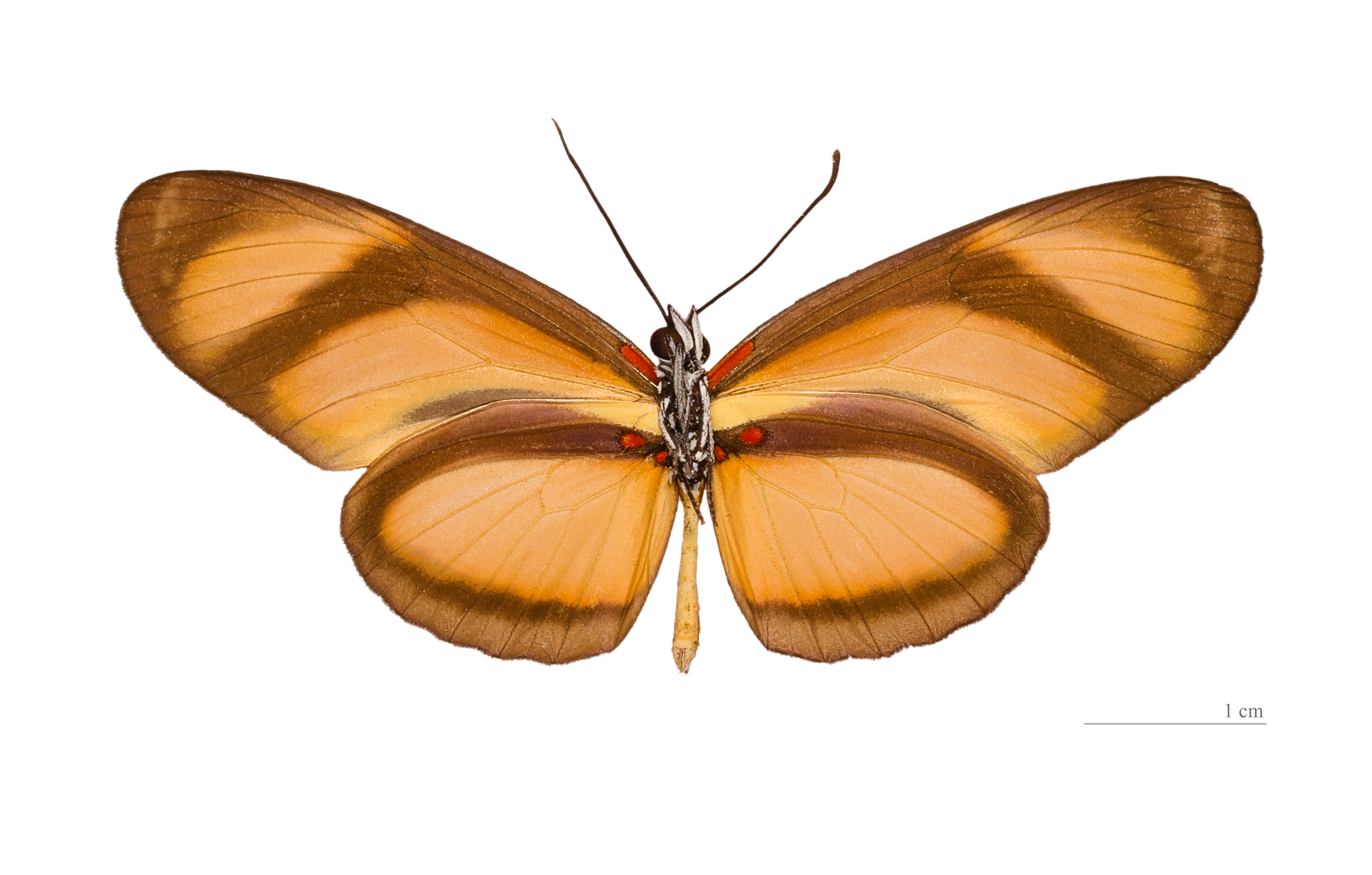 ♂ - Dorsal side Locality : Vidal (GF), Cayenne, French Guiana.